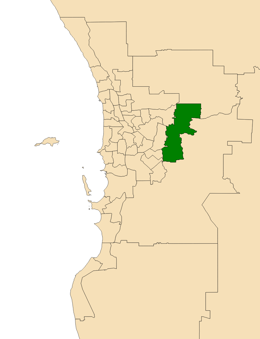 Location of the electoral district of Kalamunda in the Perth metropolitan area, Western Australia as of the 2017 WA state election.